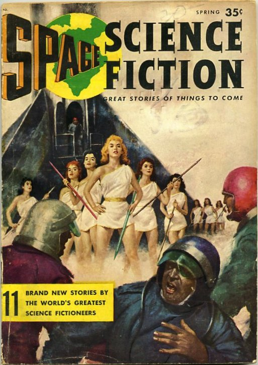 Cover of Spring 1957 issue of Space Science Fiction Magazine. Artist is Tom Ryan. Copyright was either Ryan, or more likely Republic Features Syndicate, Inc., who published the magazine. Since this magazine was first published in the U.S. before 1964, the original copyright lasted 27 years from the end of the year of first publication. The copyright holder was free to renew the copyright any time during the year 1985, but they did not do so. (All copyright renewals since 1977 are on file at the U.S. Copyright Office, and can be searched online here. The copyright on one story was renewed, but the copyright on the cover was not.) The copyright has expired.